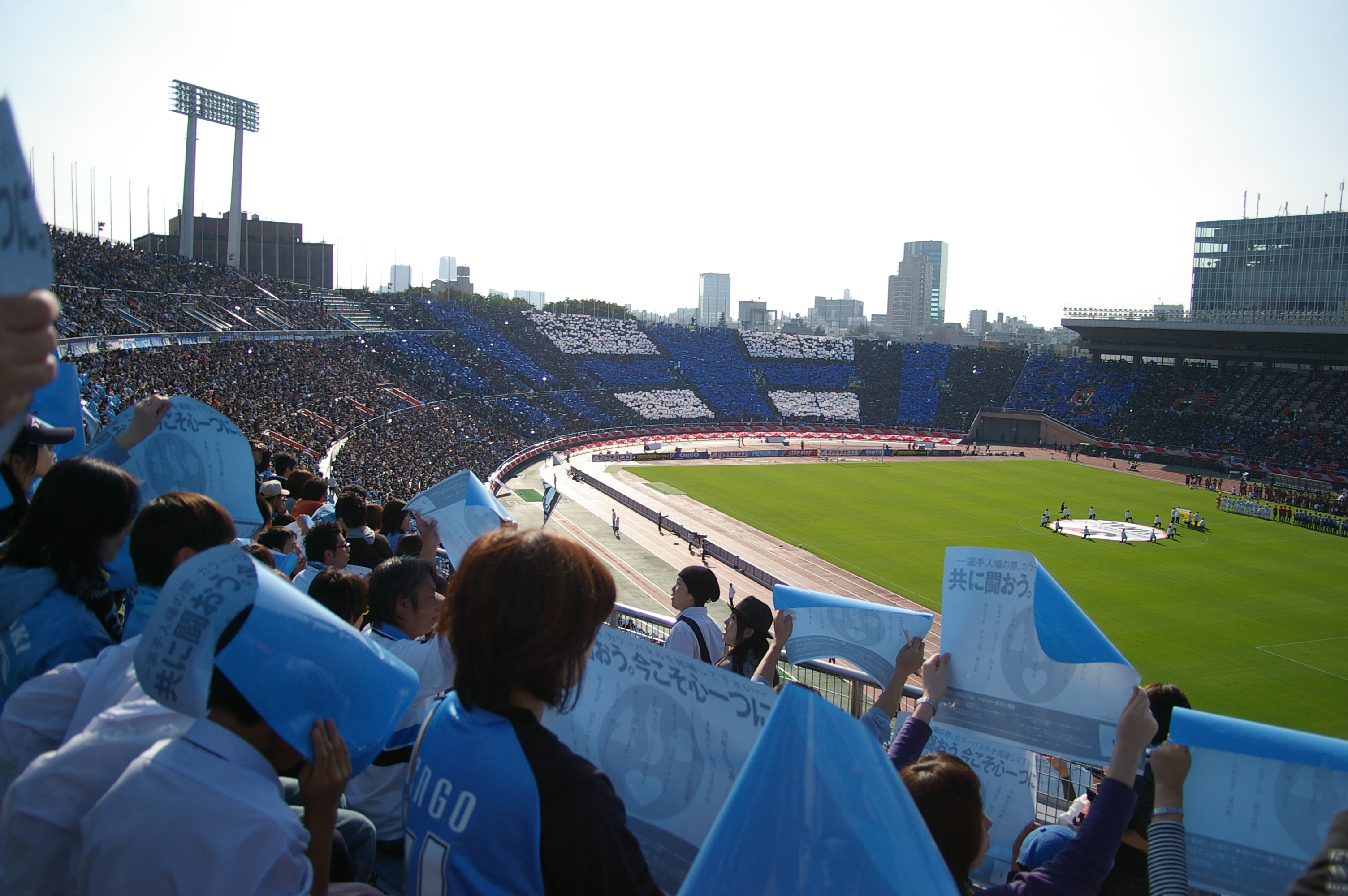 Nabisco Final 2007 G.Osaka